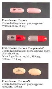 From the Department of Justice website [1].